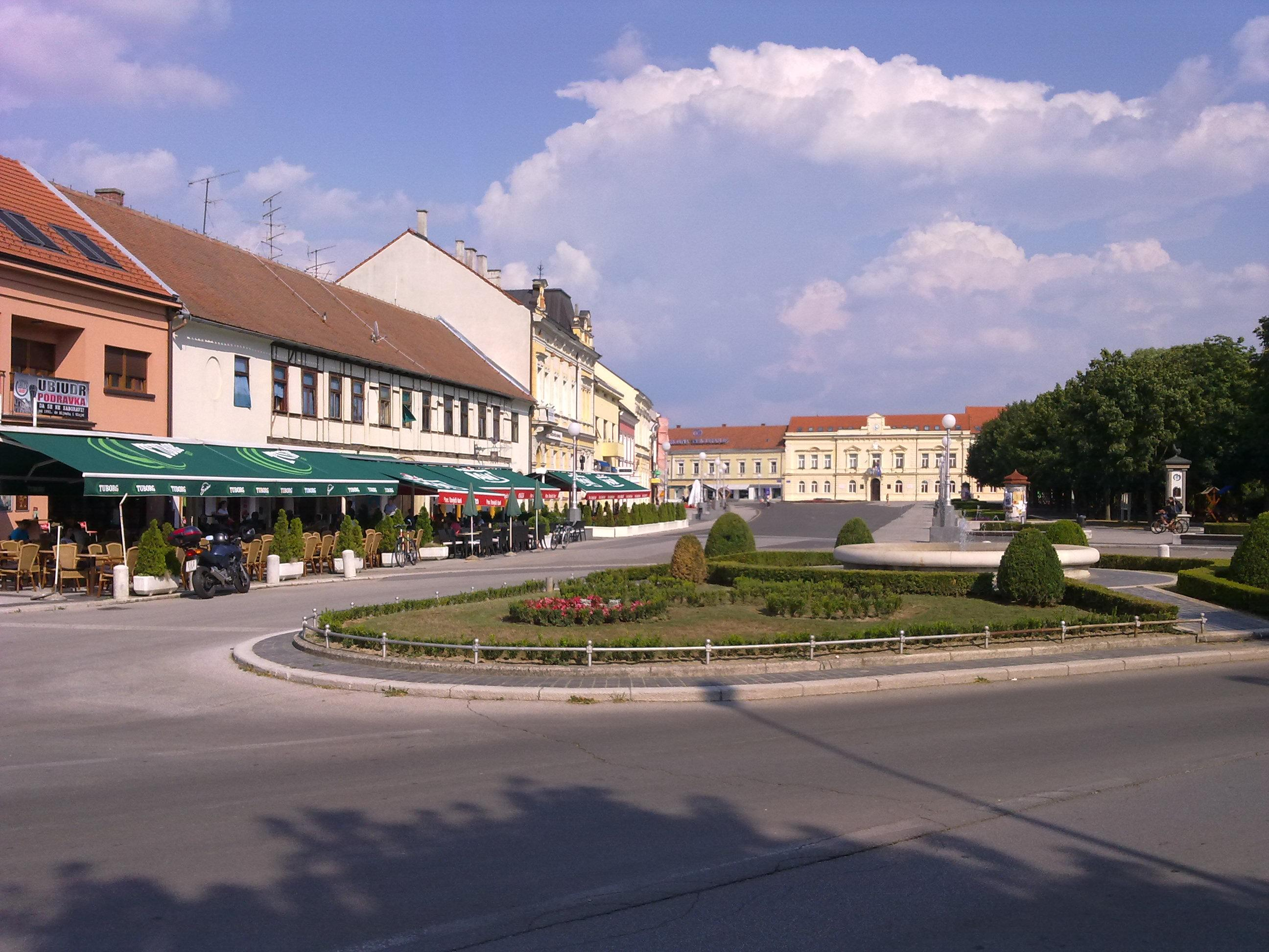 Koprivnica, Croatia